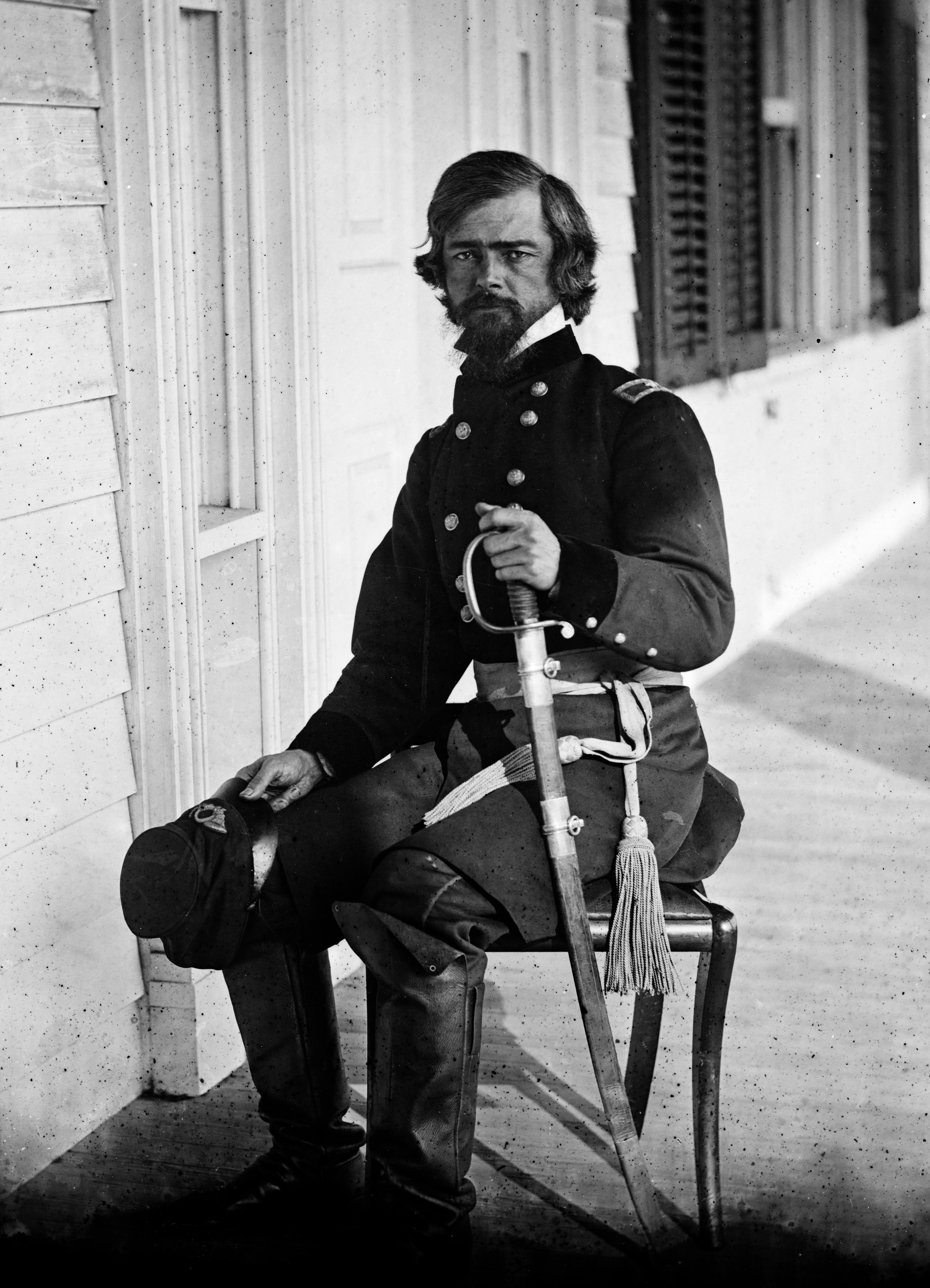 Beaufort, S.C. Gen. Isaac I. Stevens on same porch. Half of a stereograph pair.